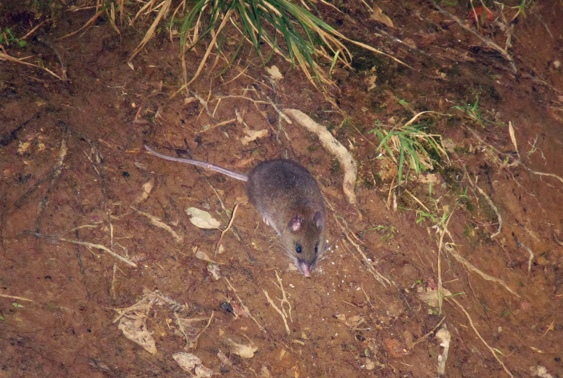 A short-footed Luzon Tree Rat or a Dwarf Cloud Rat seen along the Ambangeg trail of Mt. Pulag in the Philippines at 2620MASL. Shot by Schadow1 Expeditions